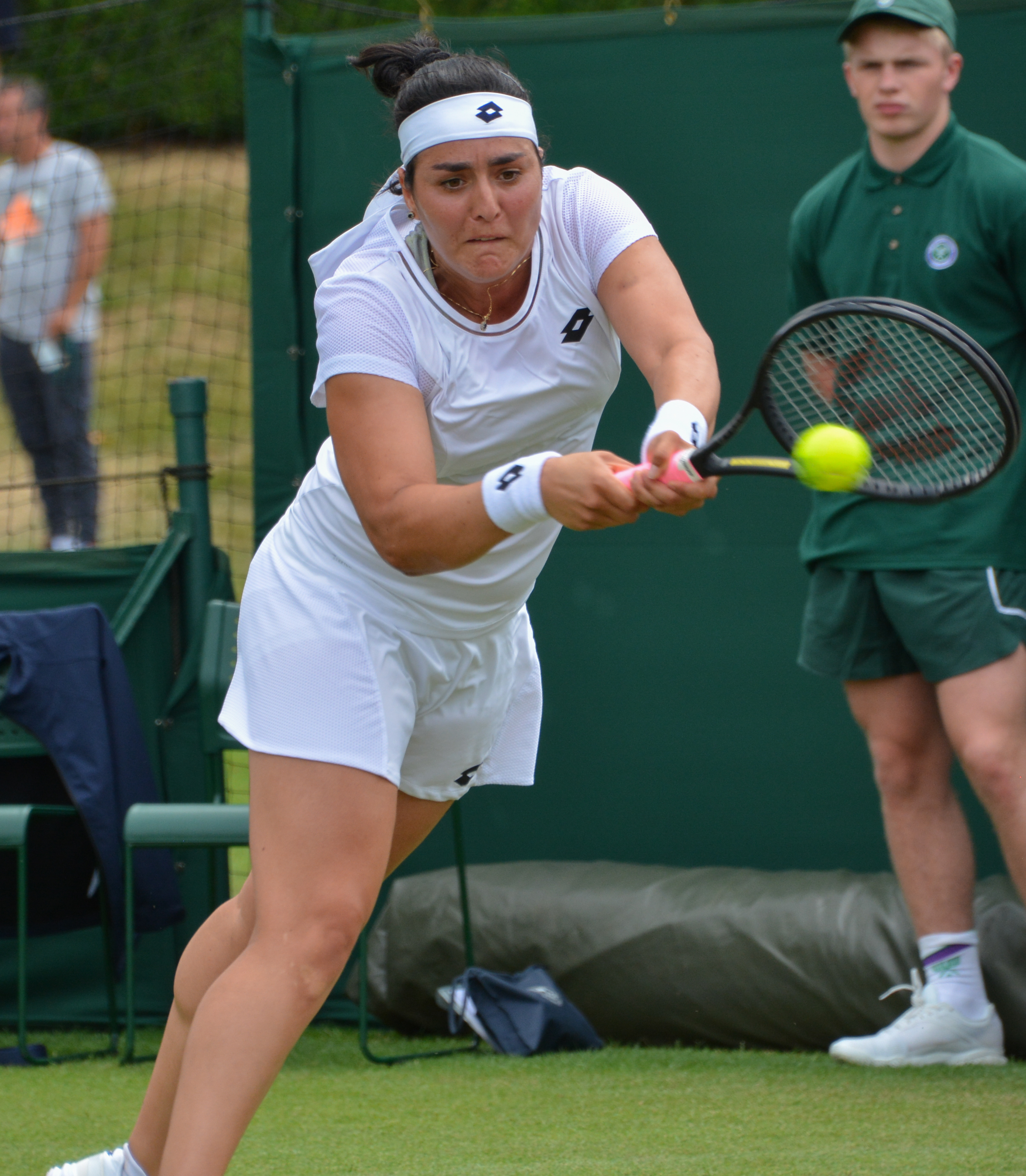 Wimbledon qualifying, Roehampton 2017.